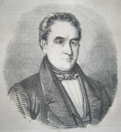 Hendrik Tollens